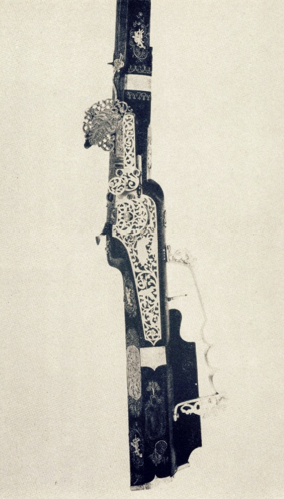 Photograph